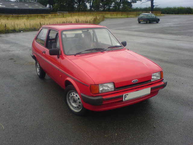 Ford Fiesta, Mark II